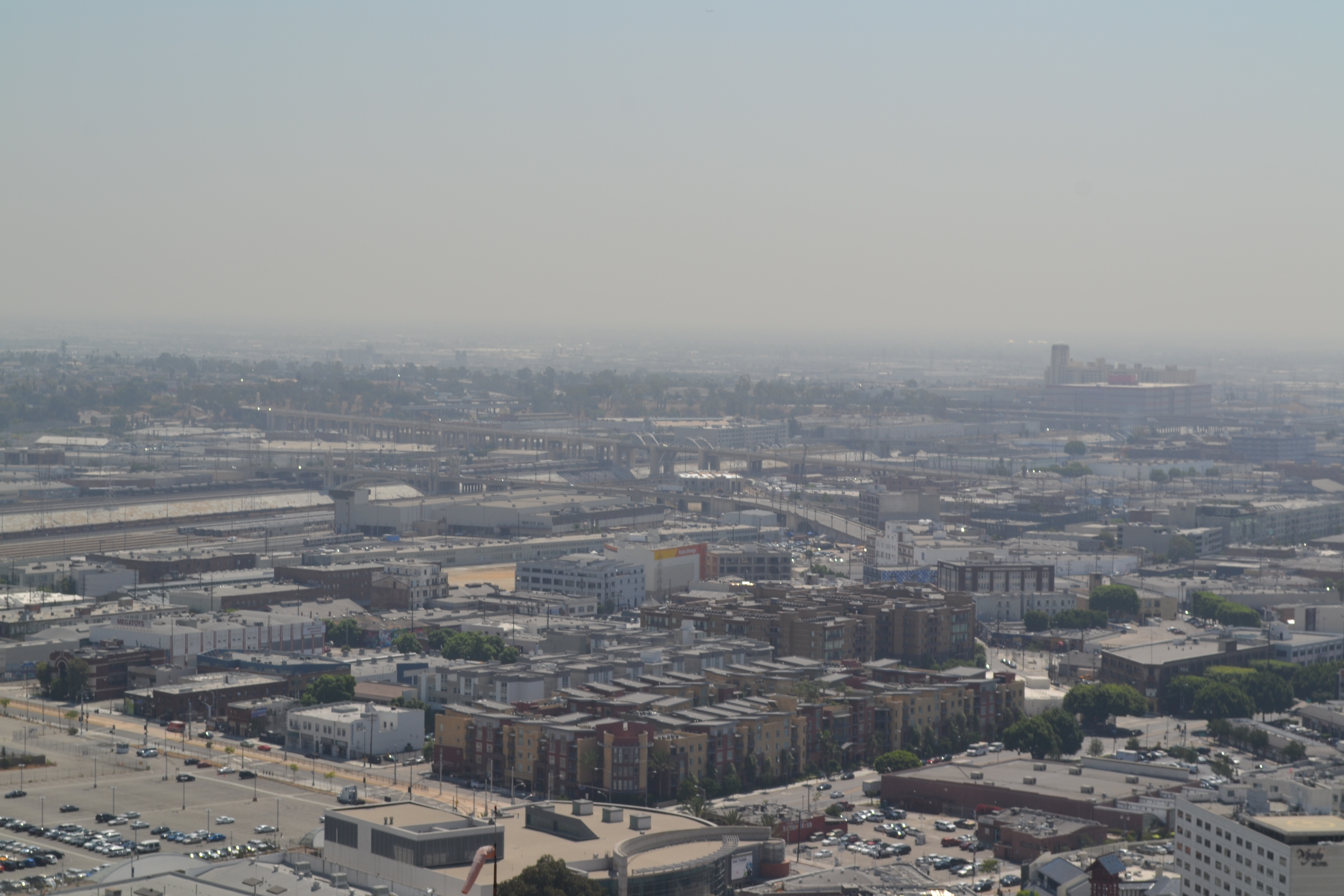 Looking southeast from Los Angeles City Hall, September 2011.